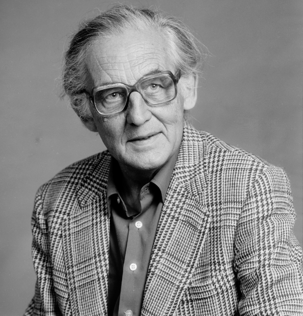 Norwegian author and translator Tom Rønnow in 1982.